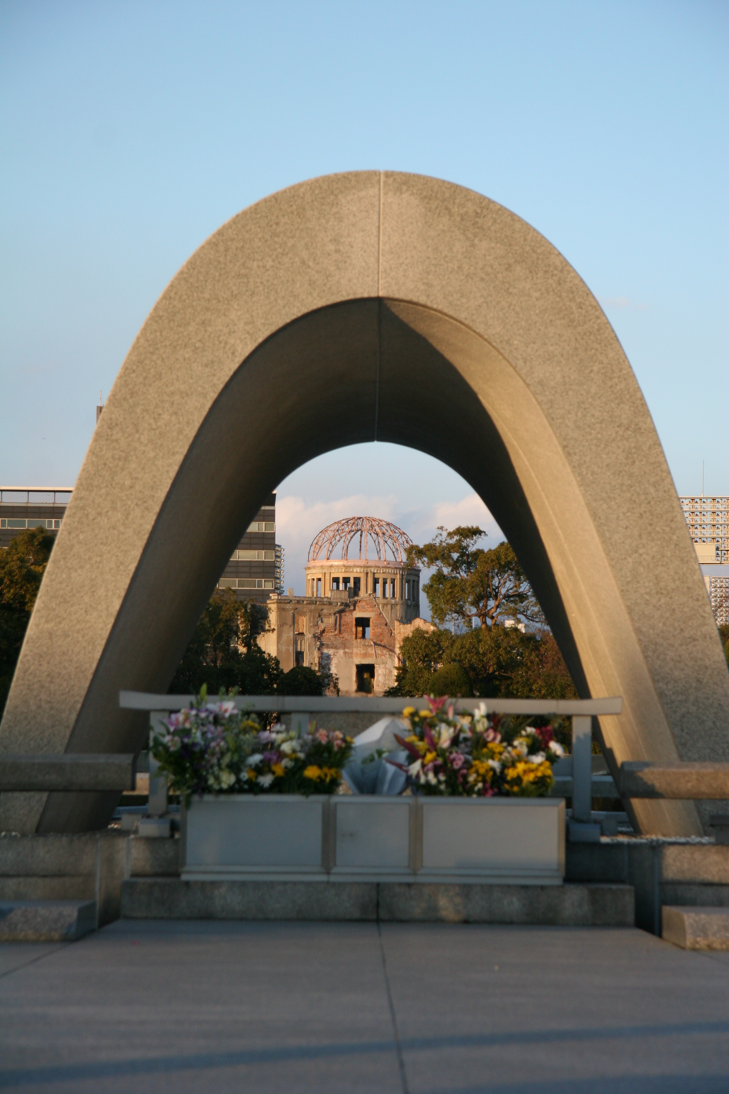 Hiroshima Peace Park